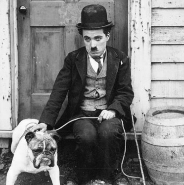 Still from the 1915 Charlie Chaplin film The Champion.